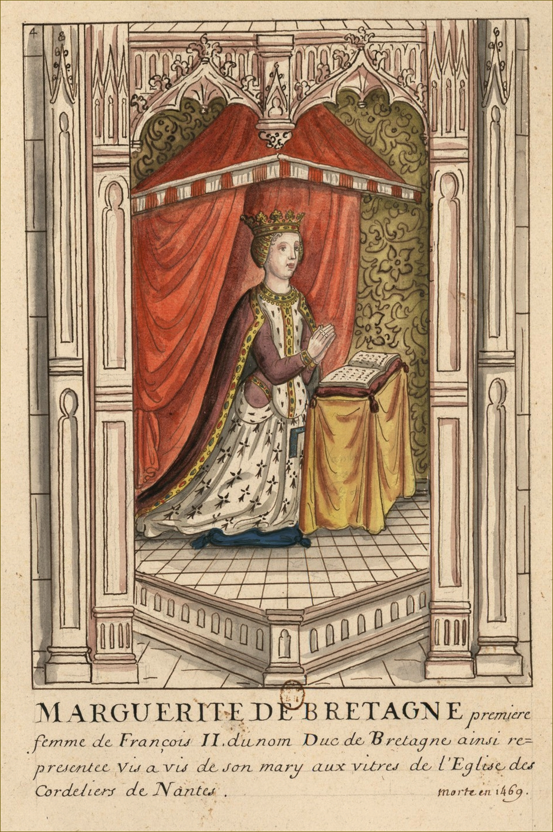 Relevé d'un ancien vitrail de l'église des Cordeliers de Nantes (détruite sous la Révolution), de la collection Gaignères.